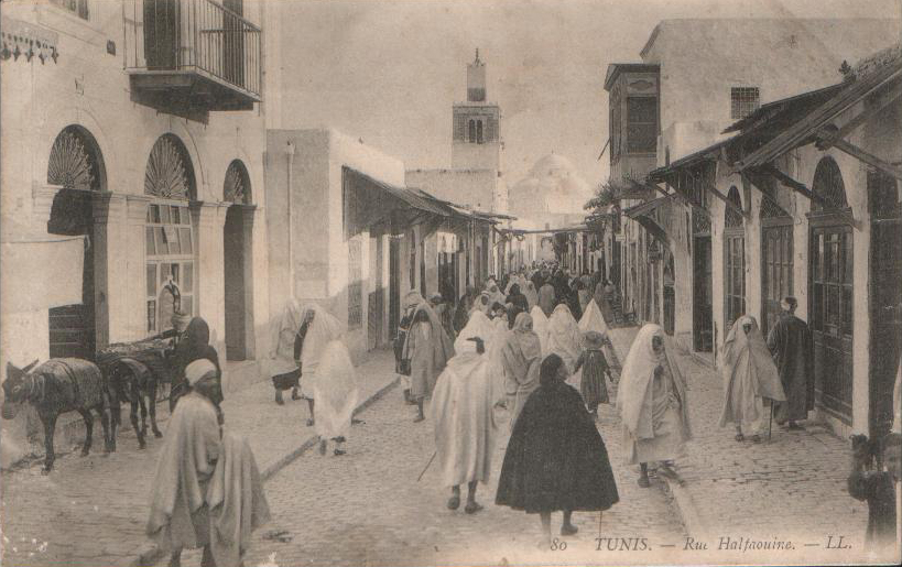 Médina de Tunis Rue Halfaouine